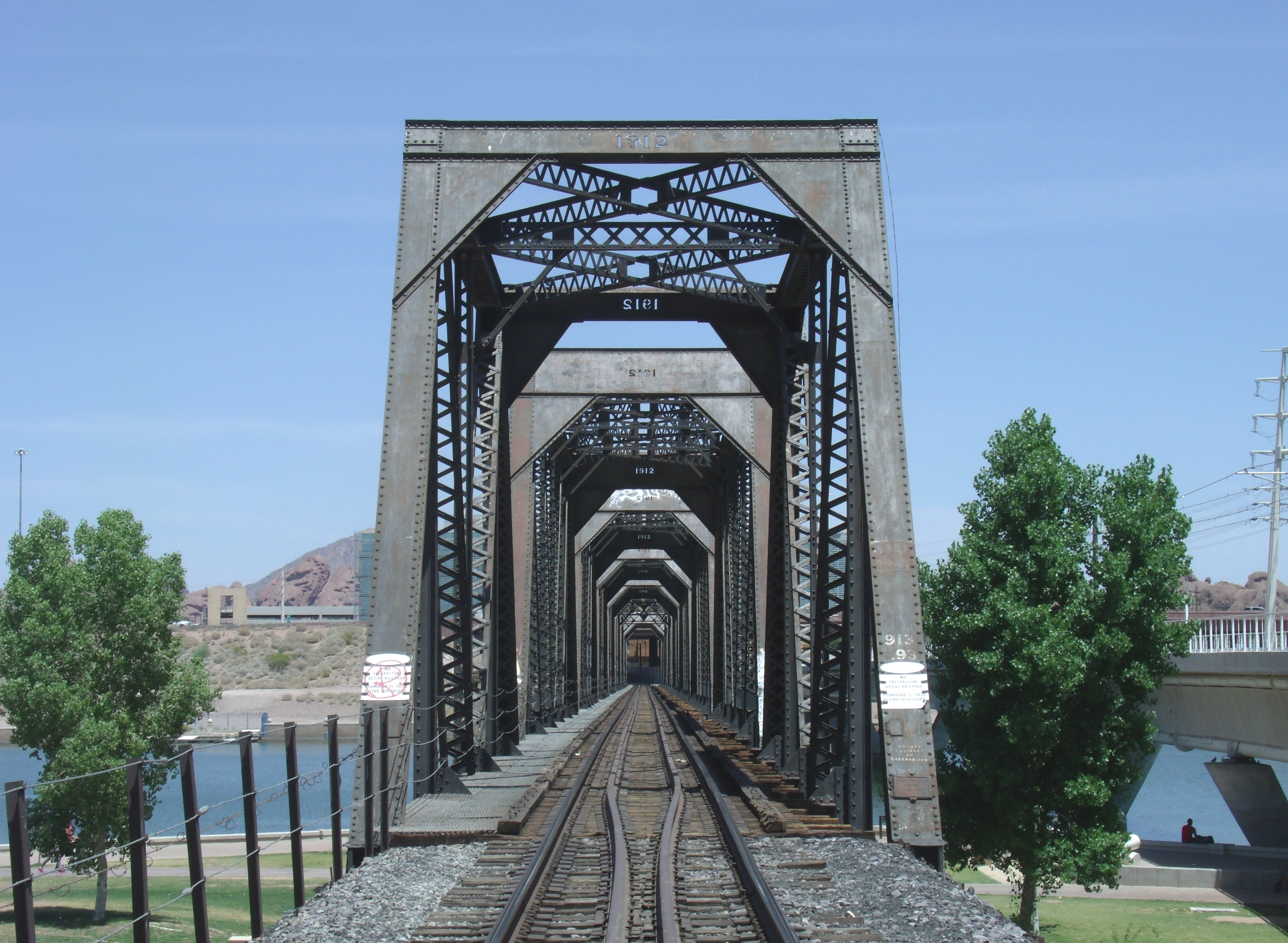 Different view of the 1912 Salt River Southern Pacific Railroad Bridge over Tempe Lake. Listed in the National Register of Historic Places in 1985 as the Salt River Southern Pacific RR Bridge, reference #85003546.